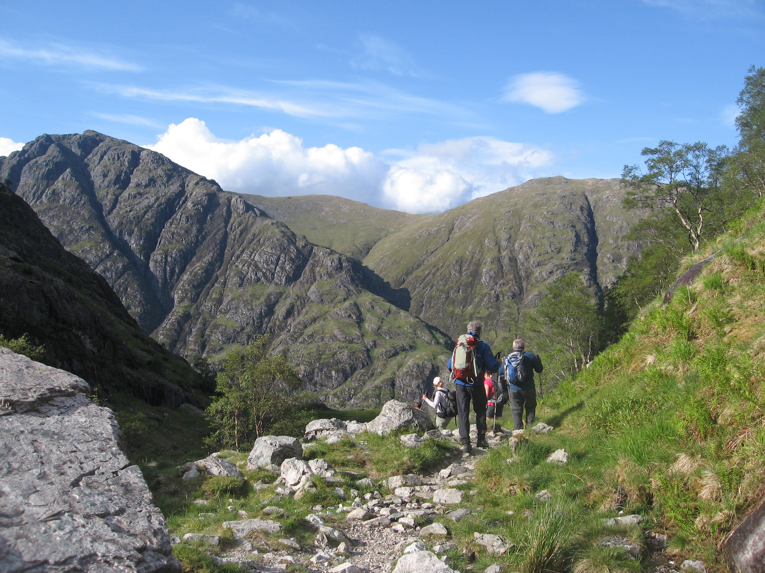 Coire Gabhail, the Lost Valley of Bidean nam Bian in Glen Coe. At the entrance to the valley, heading back down the path beside the ravine, with Aonach Eagach visible on the other side of Glen Coe.